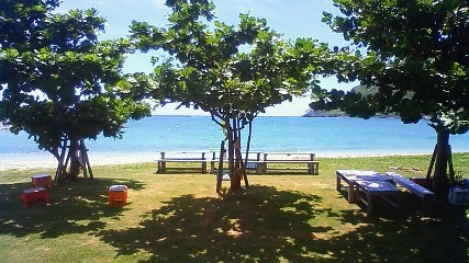 Agarihama Beach, Tonakijima, Japan.